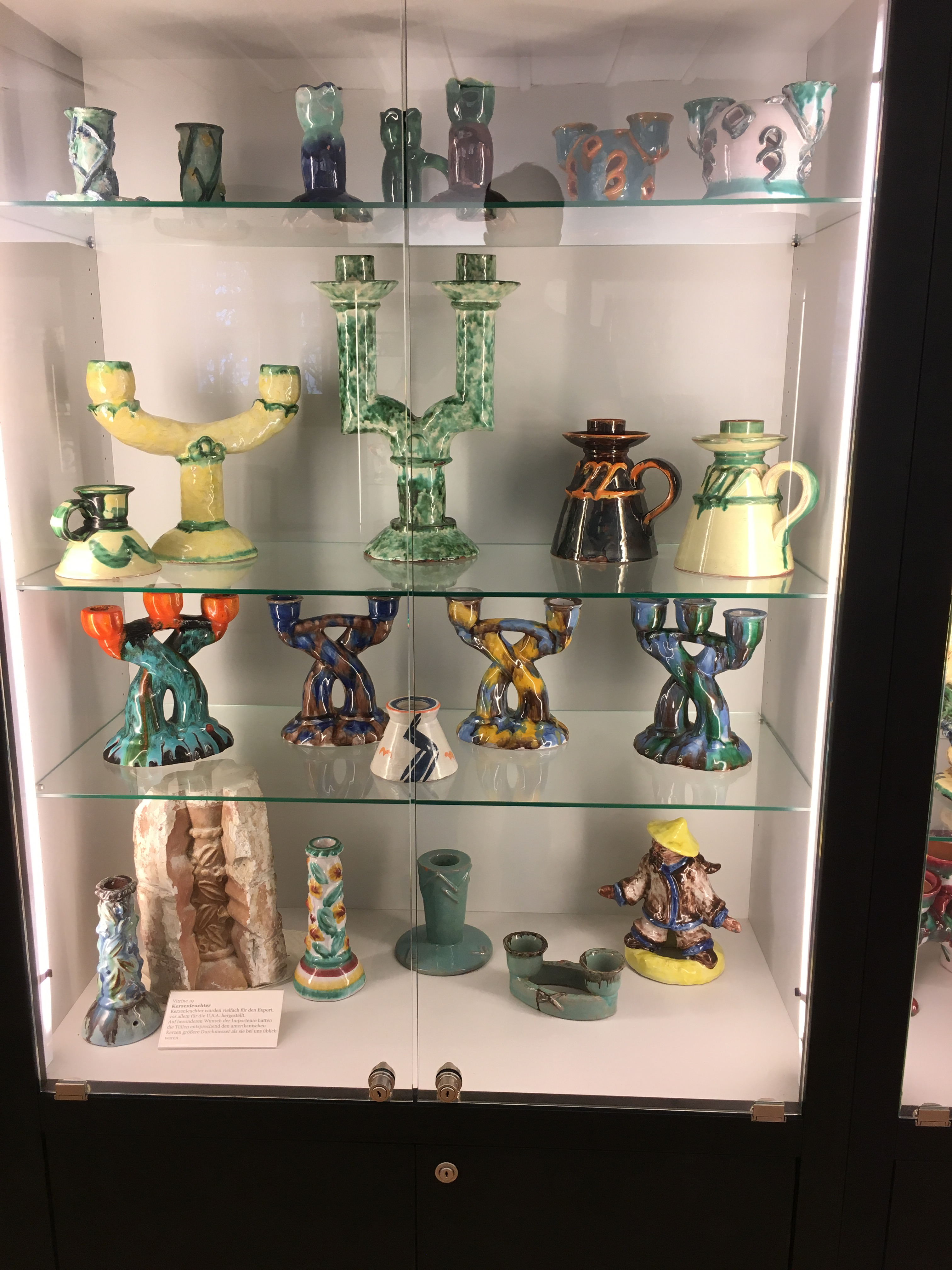 Tonindustrie Scheibbs Kerzenhalter